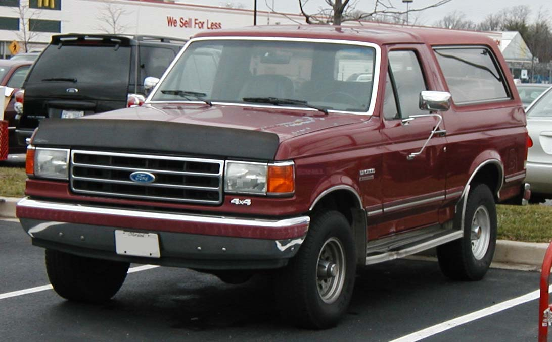 1987-1991 Ford Bronco photographed in USA.